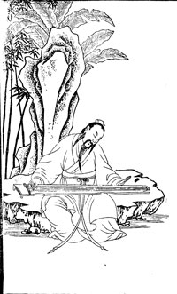 Xi Kang playing the qin. This image is from an illustrated Ming dynasty Liexian Quanzhuan, which developed out of the Han dynasty Liexian Zhuan.